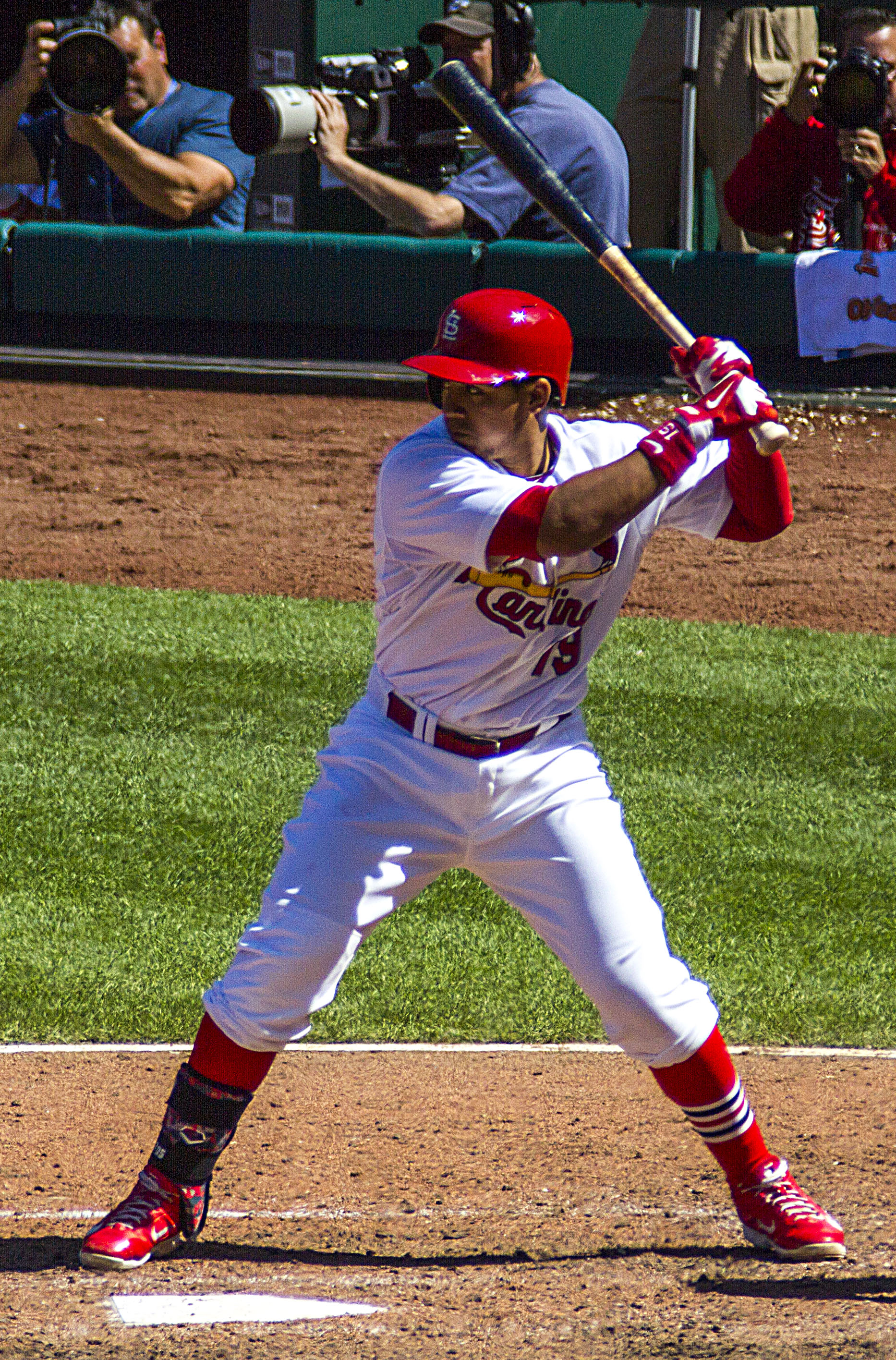 Jon Jay St.louis Cardinals centerfielder